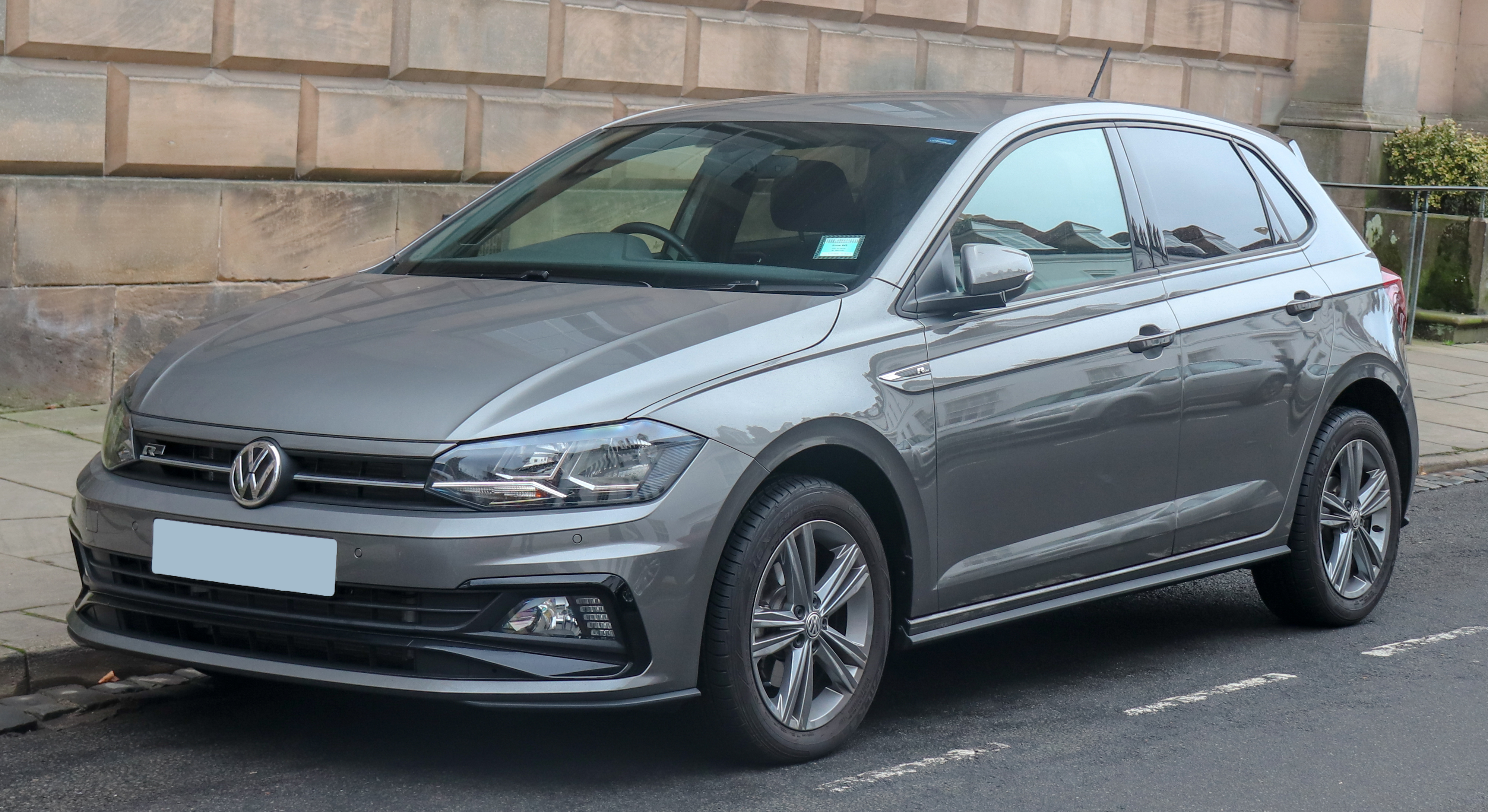 2018 Volkswagen Polo R-Line TSi 1.0 Front Taken in Warwick